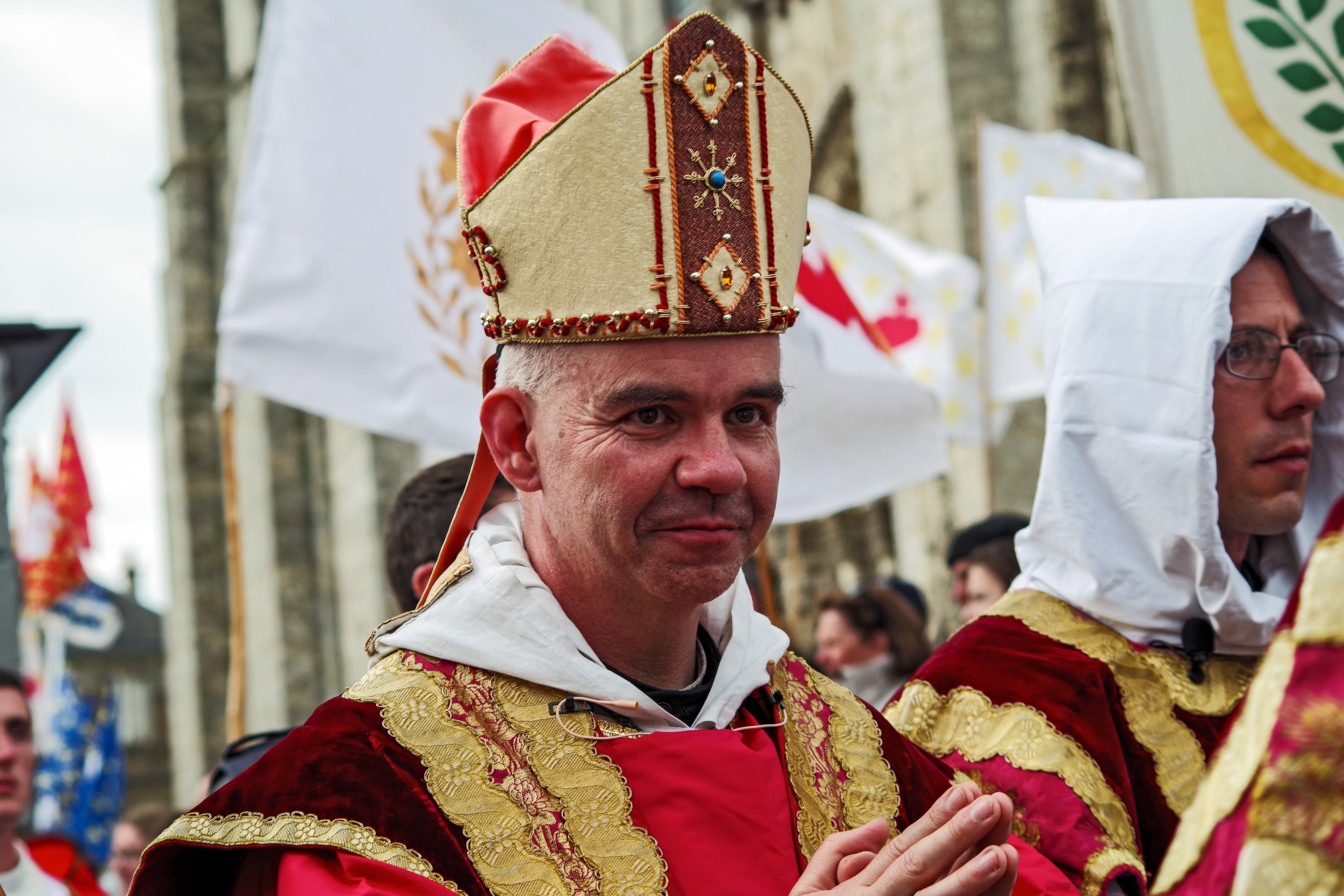 Dom Jean Pateau, abbot of the abbey of Fontgombault (2016)